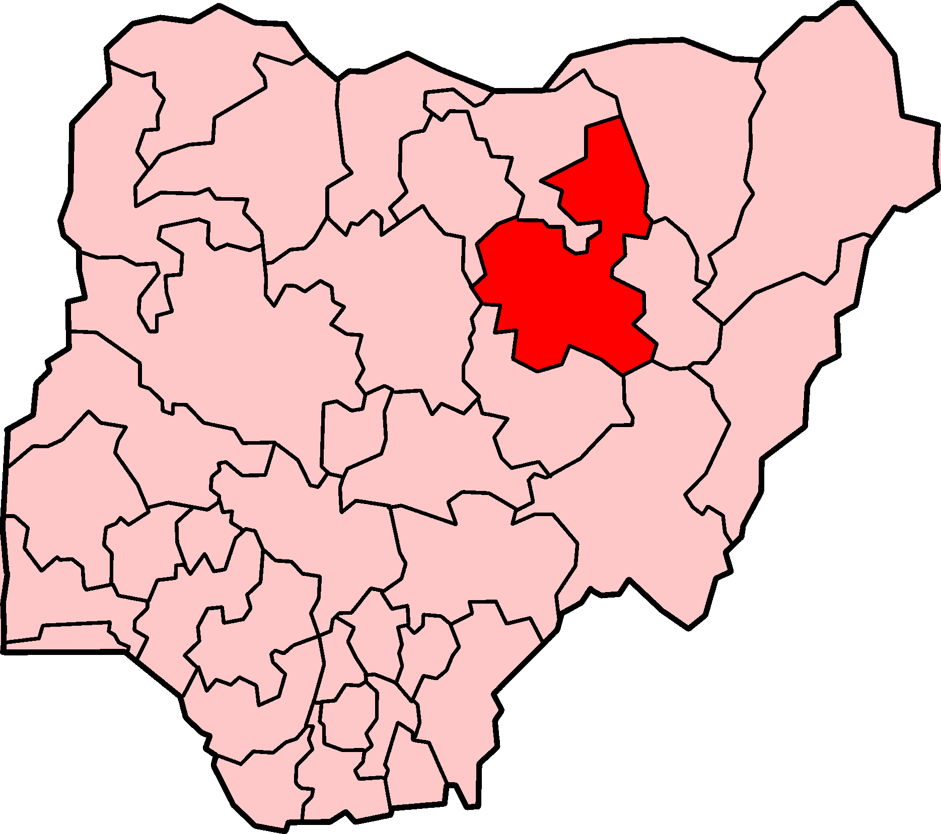 Locator map for Bauchi state, within Nigeria